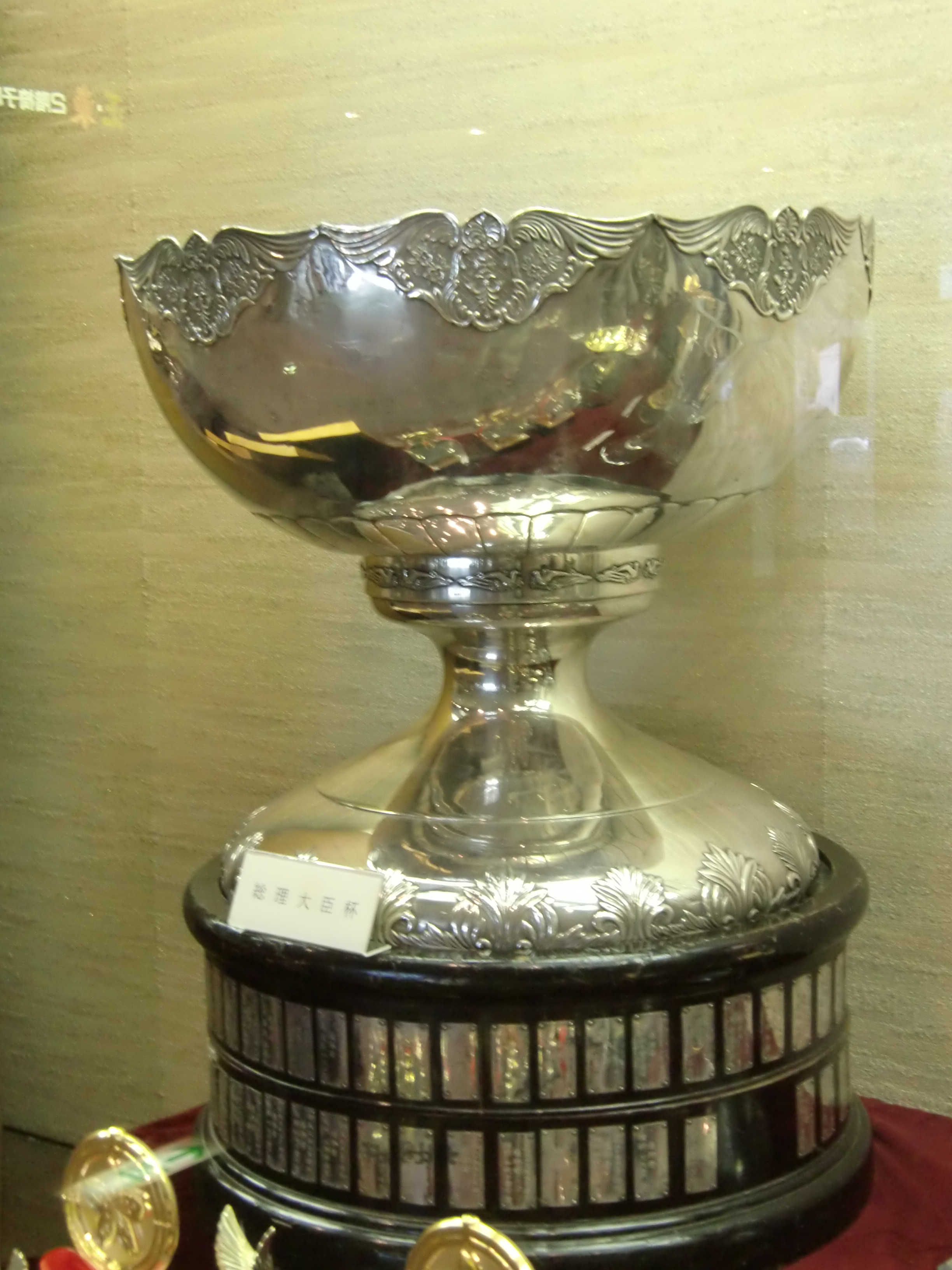 Taken by myself at a recent tournament